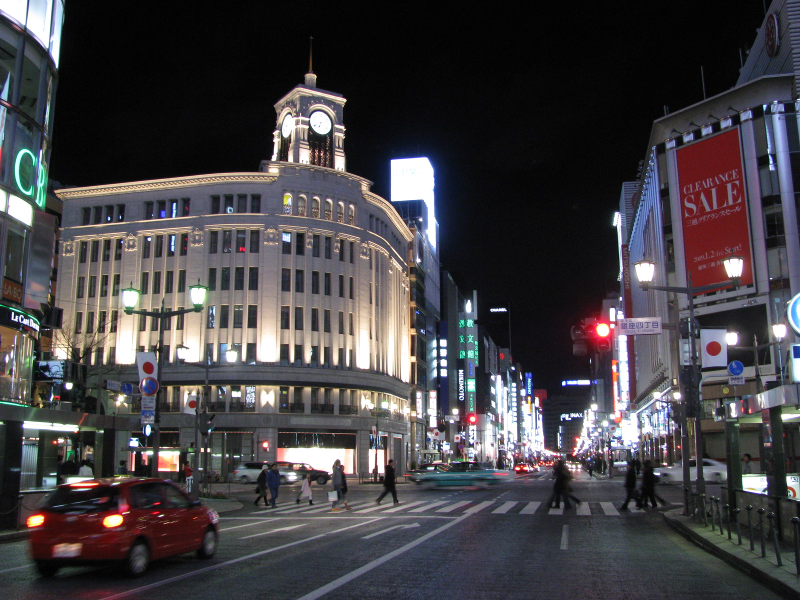 Night in Ginza. Ginza in Chuo,Tokyo, Japan.